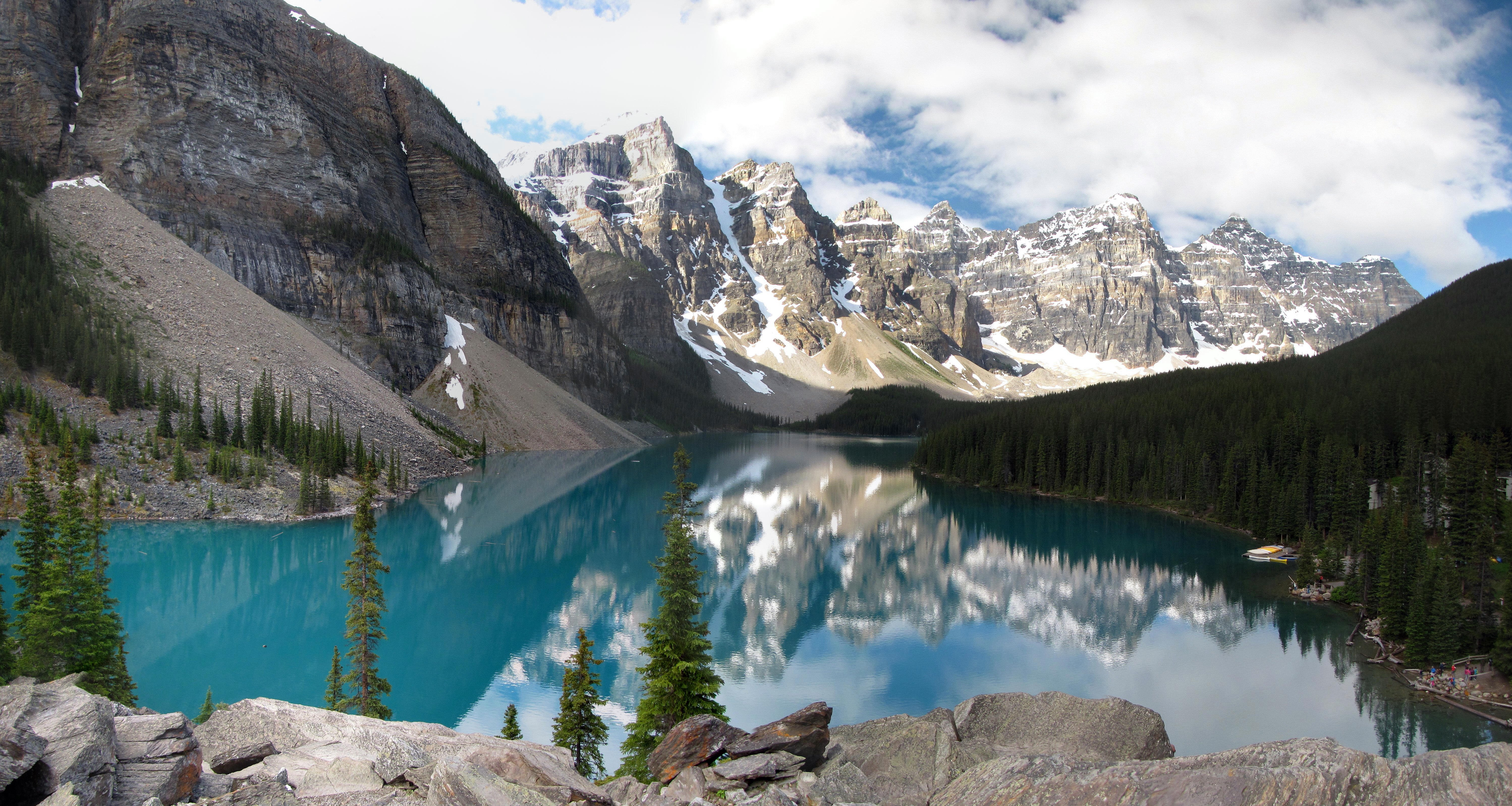 Moraine Lake